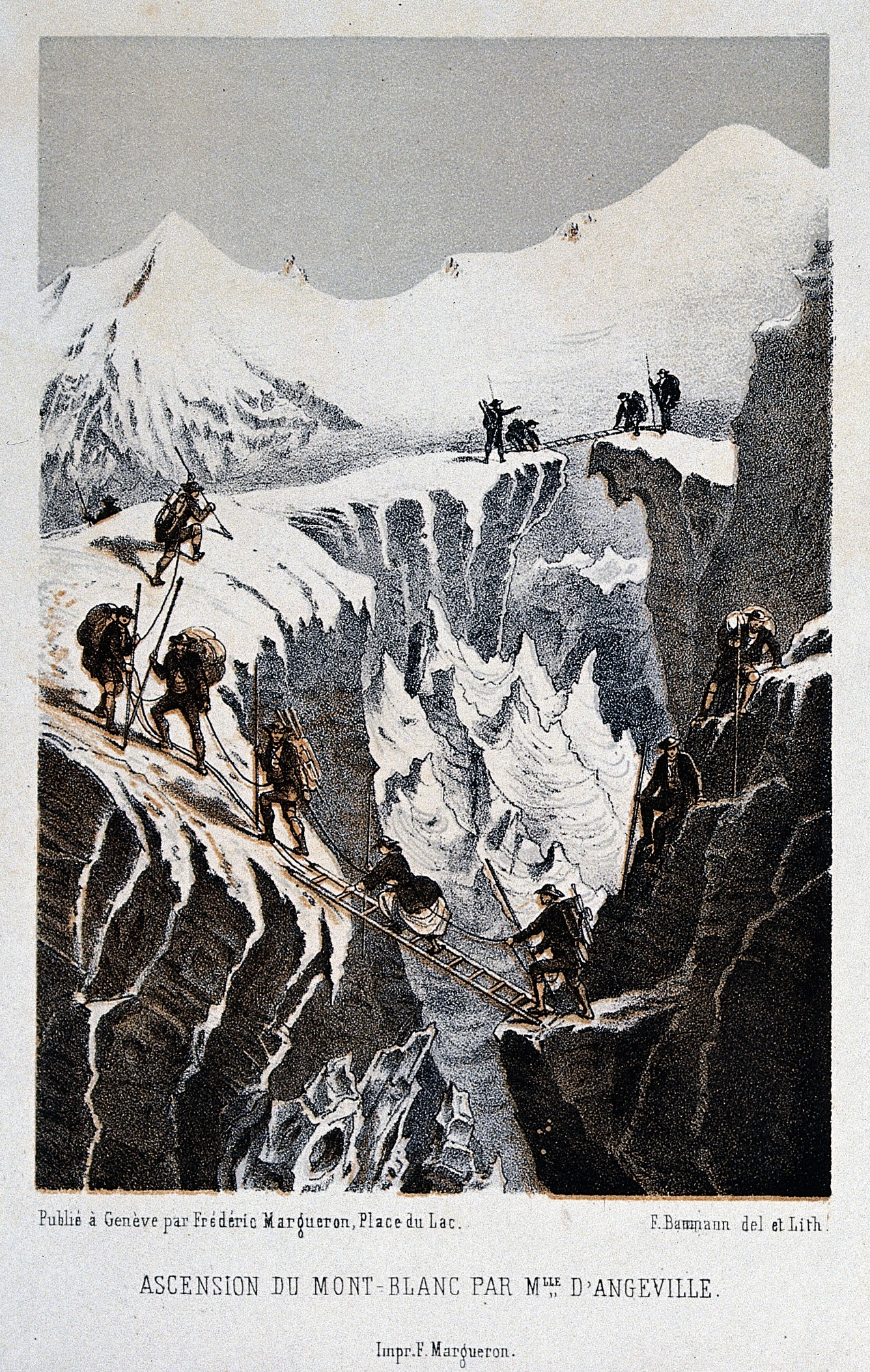 Henriette d'Angeville and her party ascending Mont Blanc, 1838. Colour lithograph by F. Baumann. Iconographic Collections Keywords: F. Baumann; Henriette de Beaumont d' Angeville